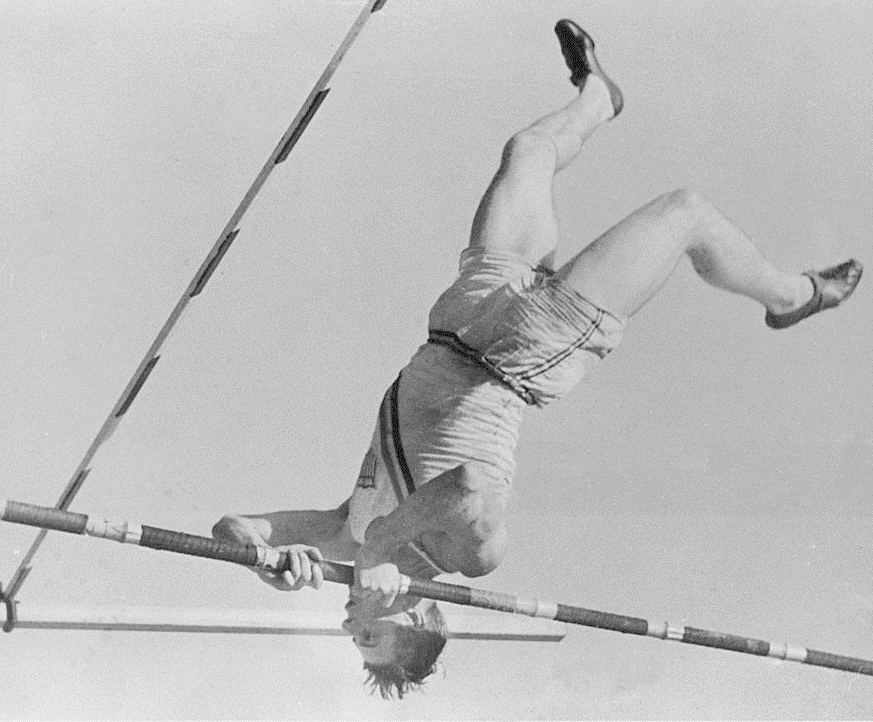 William Miller of the USA in action during the Pole Vault event at the 1932 Olympic Games in Los Angeles, USA. Miller won the gold medal with a vault of 4.315 metres